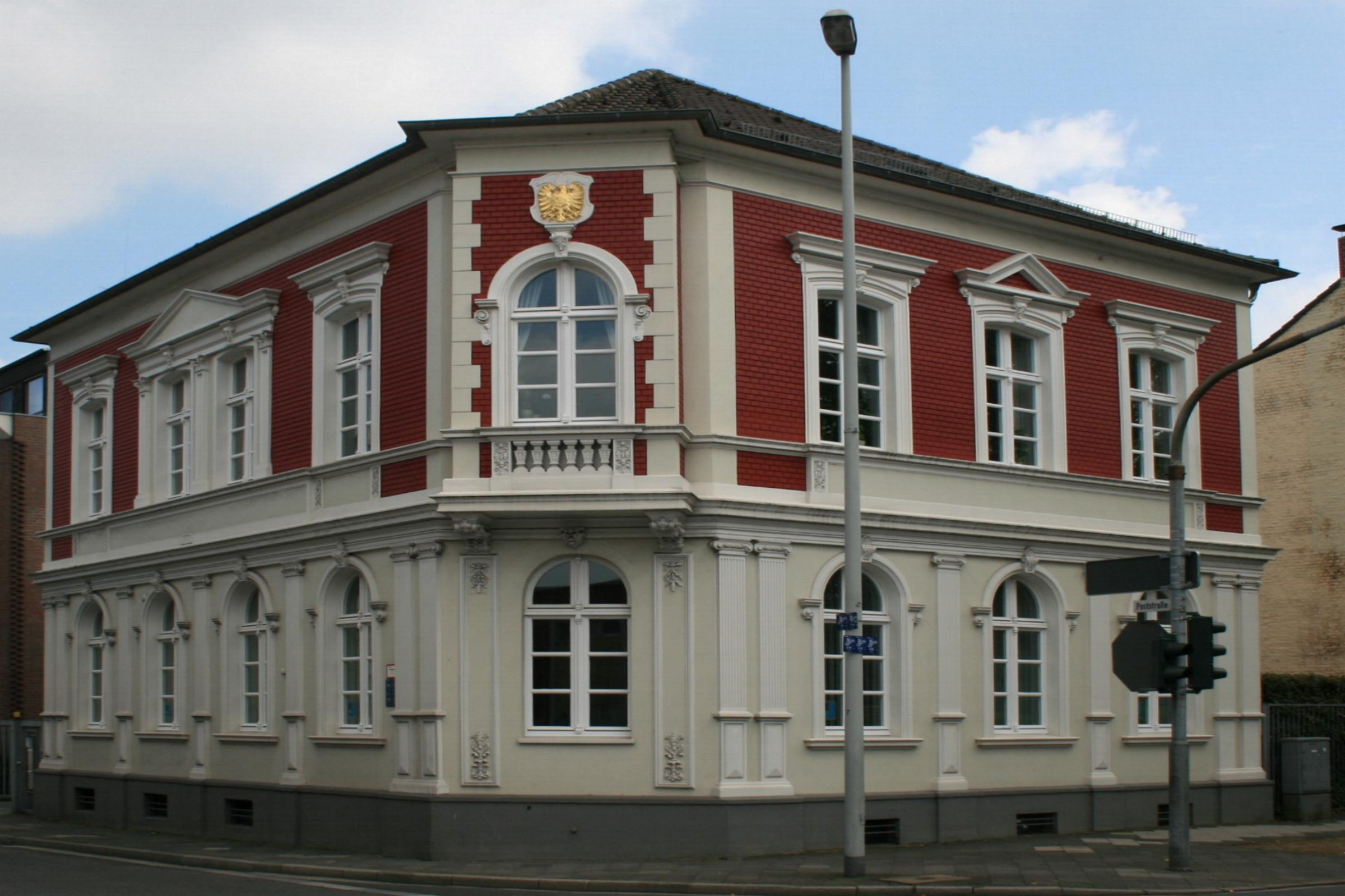 Cultural heritage monument No. P 010 in Mönchengladbach